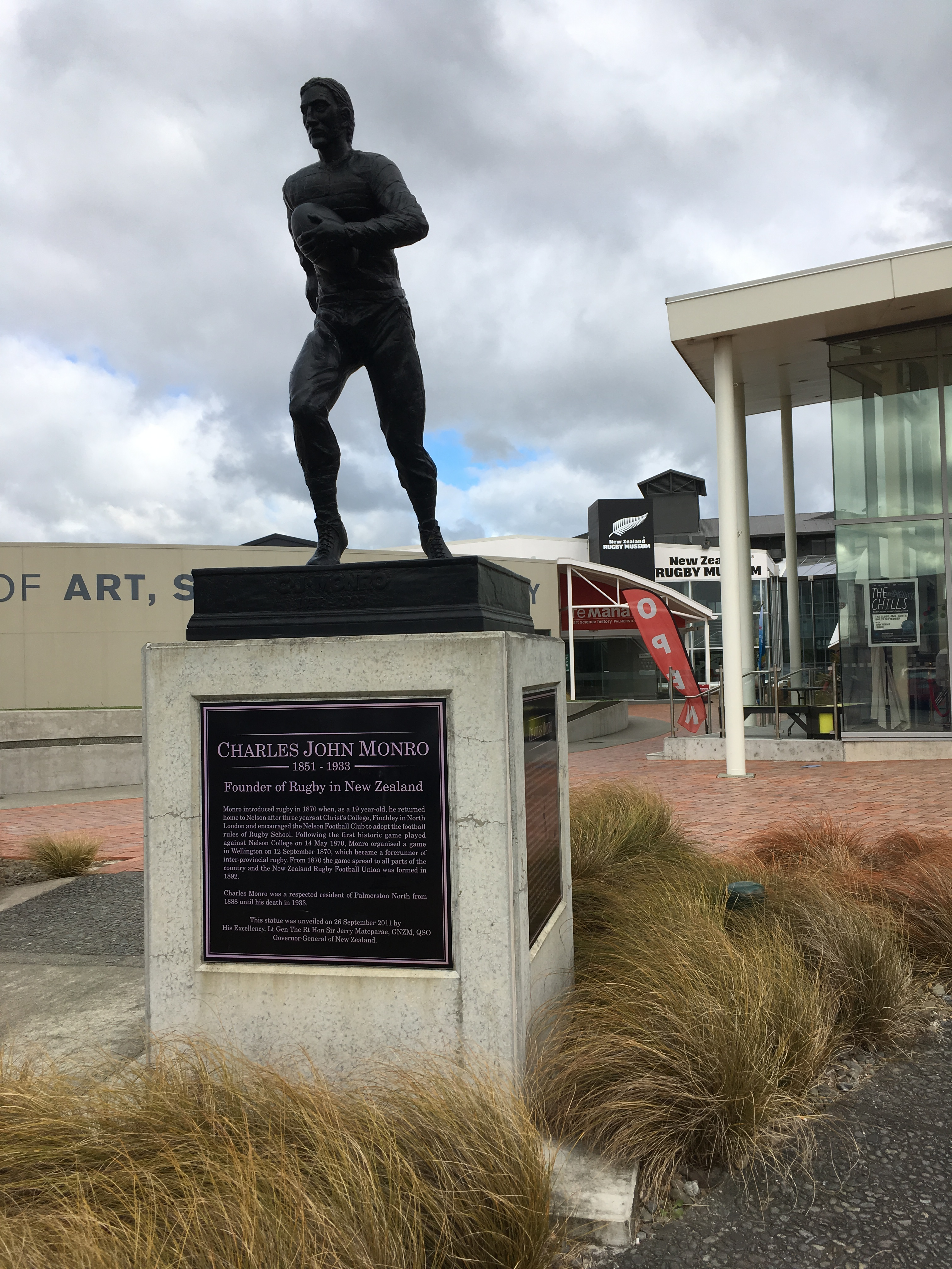 Charles John Munro statue from the Te Manawatu museum